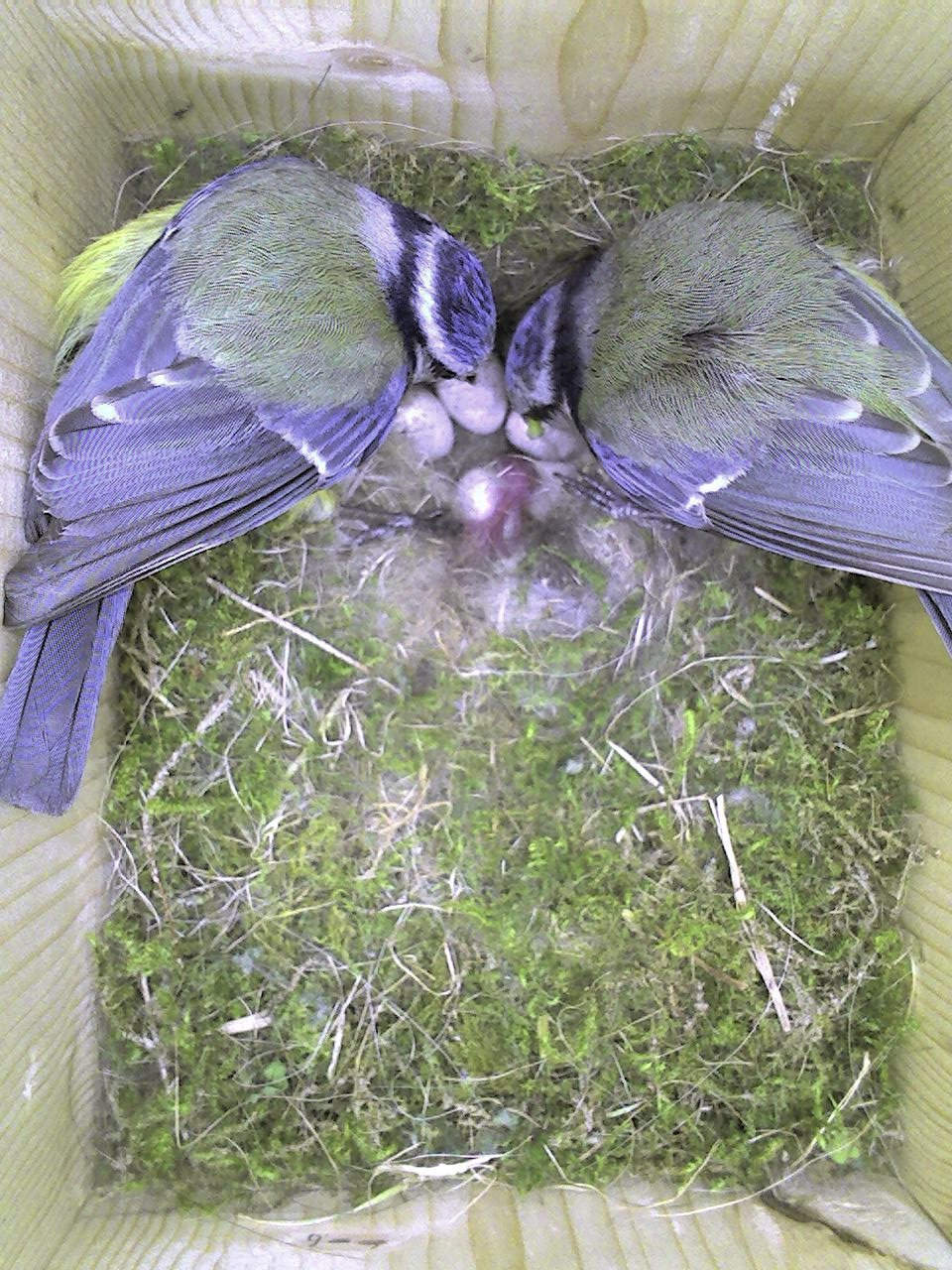 Two Blue Tit (Cyanistes caeruleus) parents admire their first chick to hatch, just moments before this picture was taken. The female (right) has a caterpillar for the chicks first meal. Colour corrected, though still not perfect.